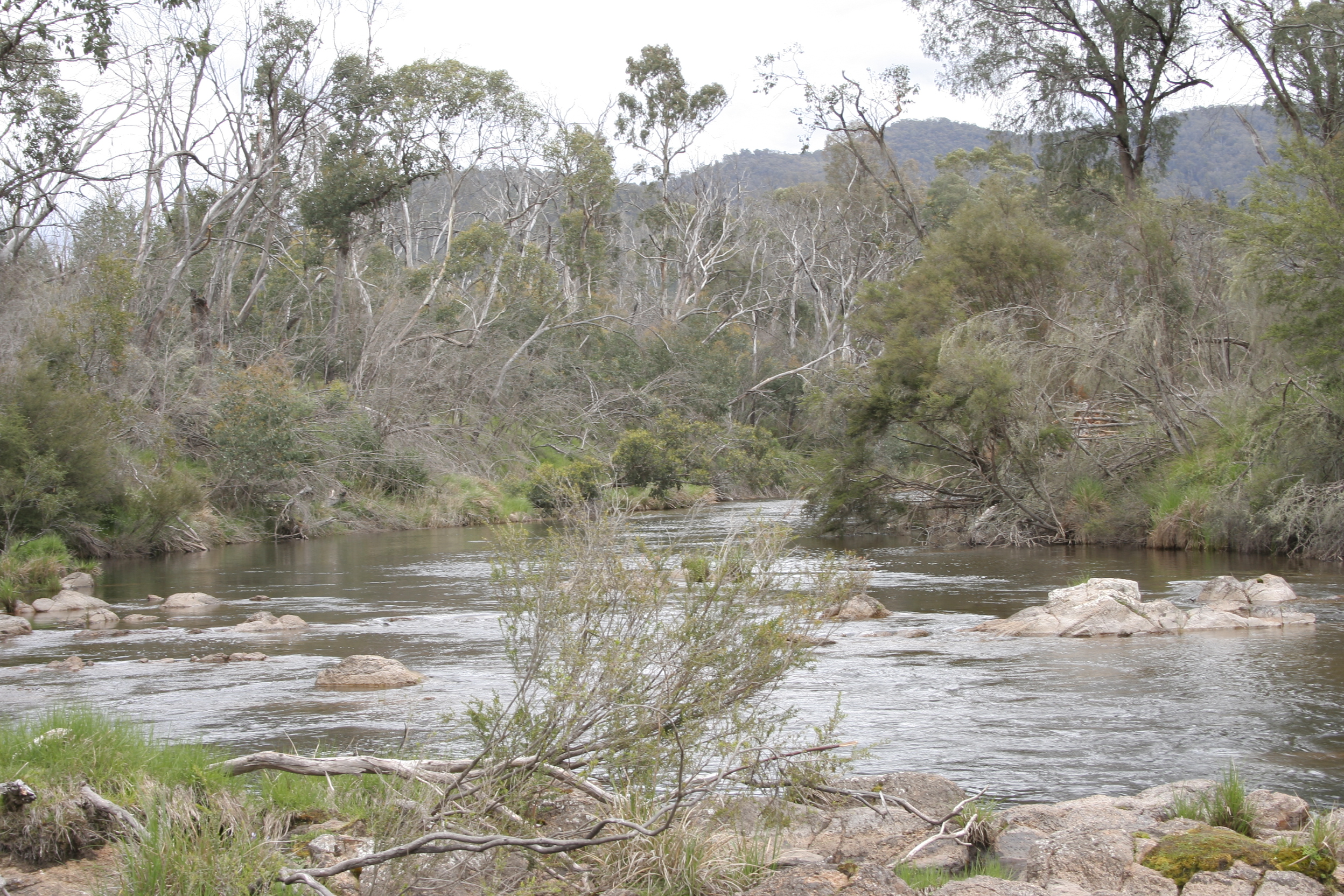 Upper Murray near Tom Groggin